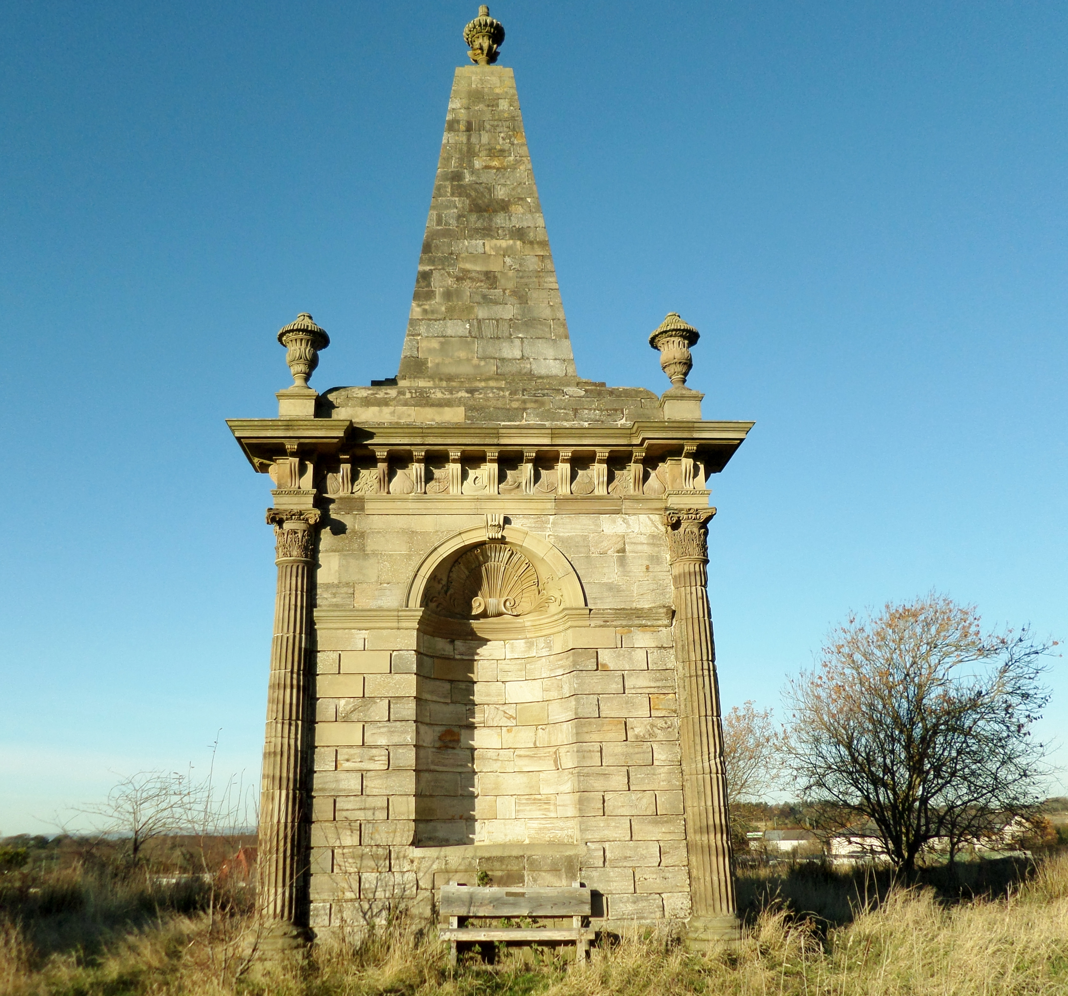 The 1750 Macrae Monument, Monkton, South Ayrshire, Scotland. From the south.